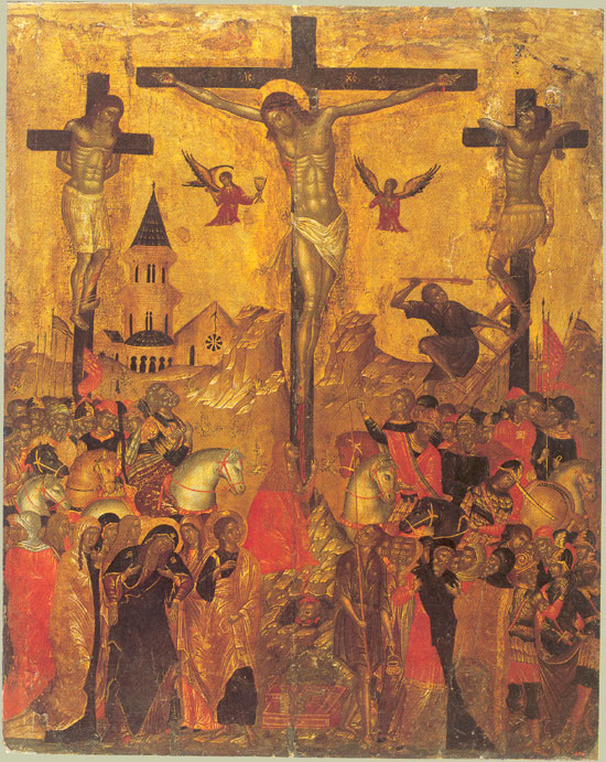 Icon of Crucifixion. Hermitage, S.Peterburg